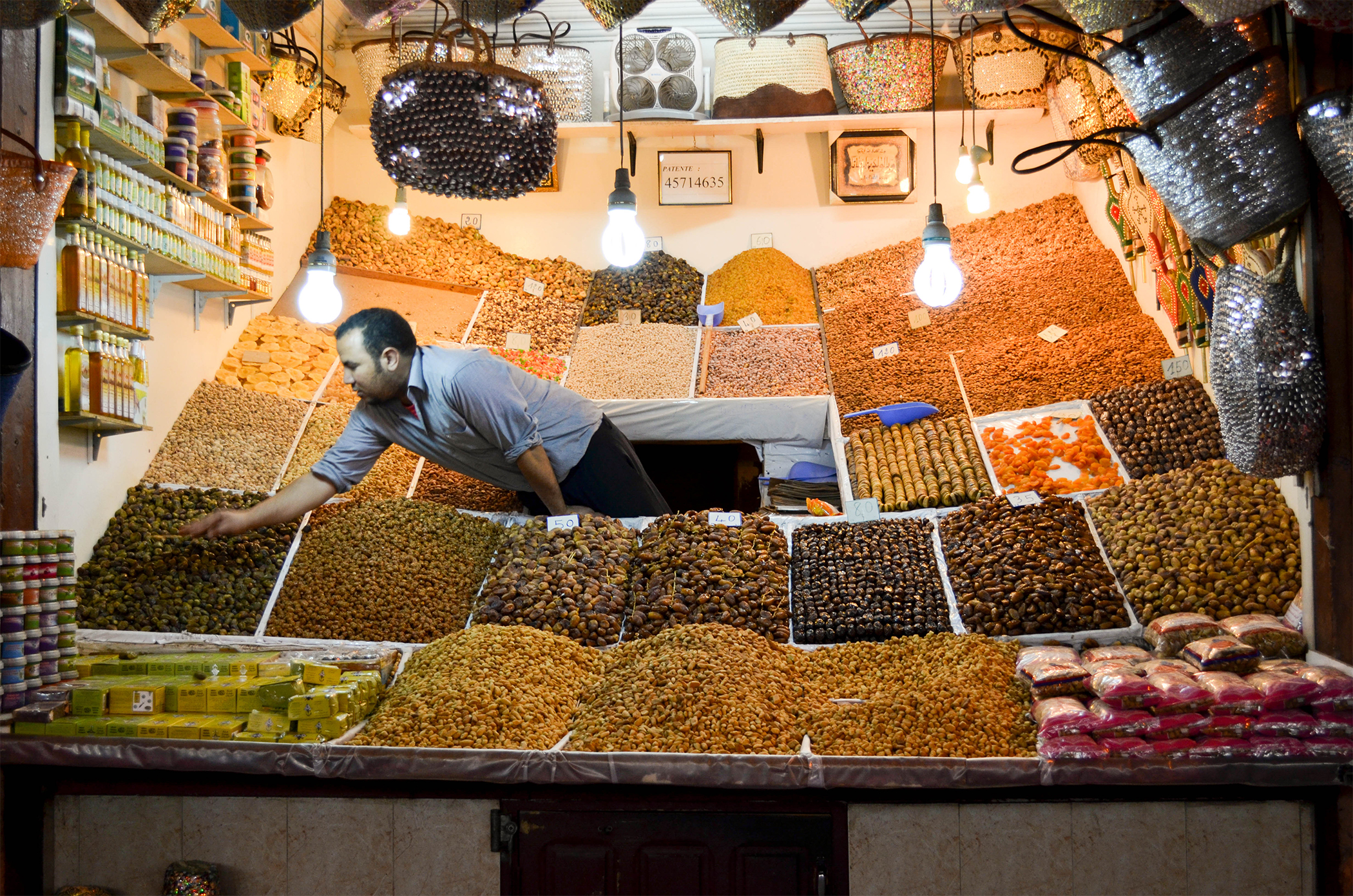 Fruits stall in Marrakesh souk, Morocco.